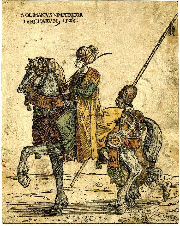 Süleyman on horseback, riding to left, accompanied by a soldier with a spear. 1526